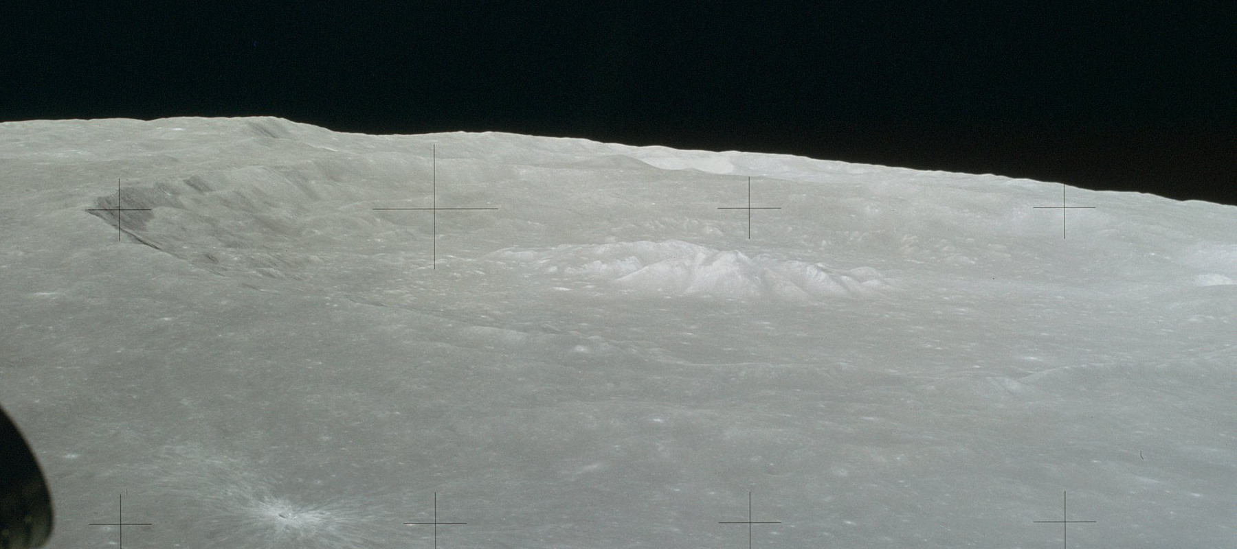 Oblique view of Theophilus, on the moon, facing west. Taken from the lunar module Orion from an altitude of 20 km.